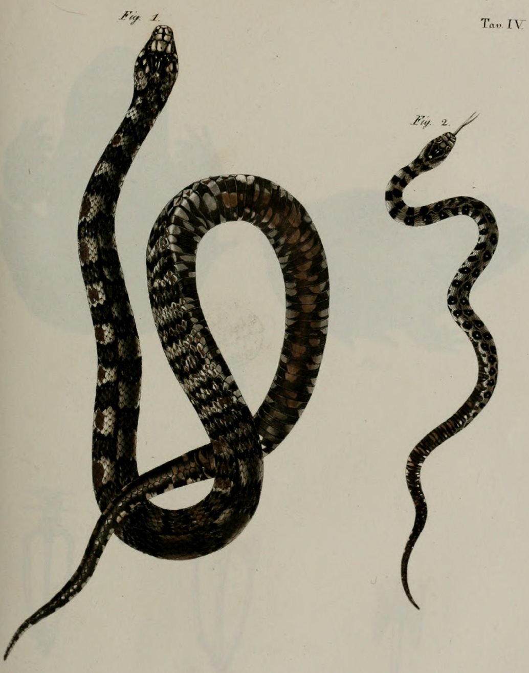 Drawing of Natrix natrix from the 1838 book Synopsis reptilium Sardiniae indigenoruni.